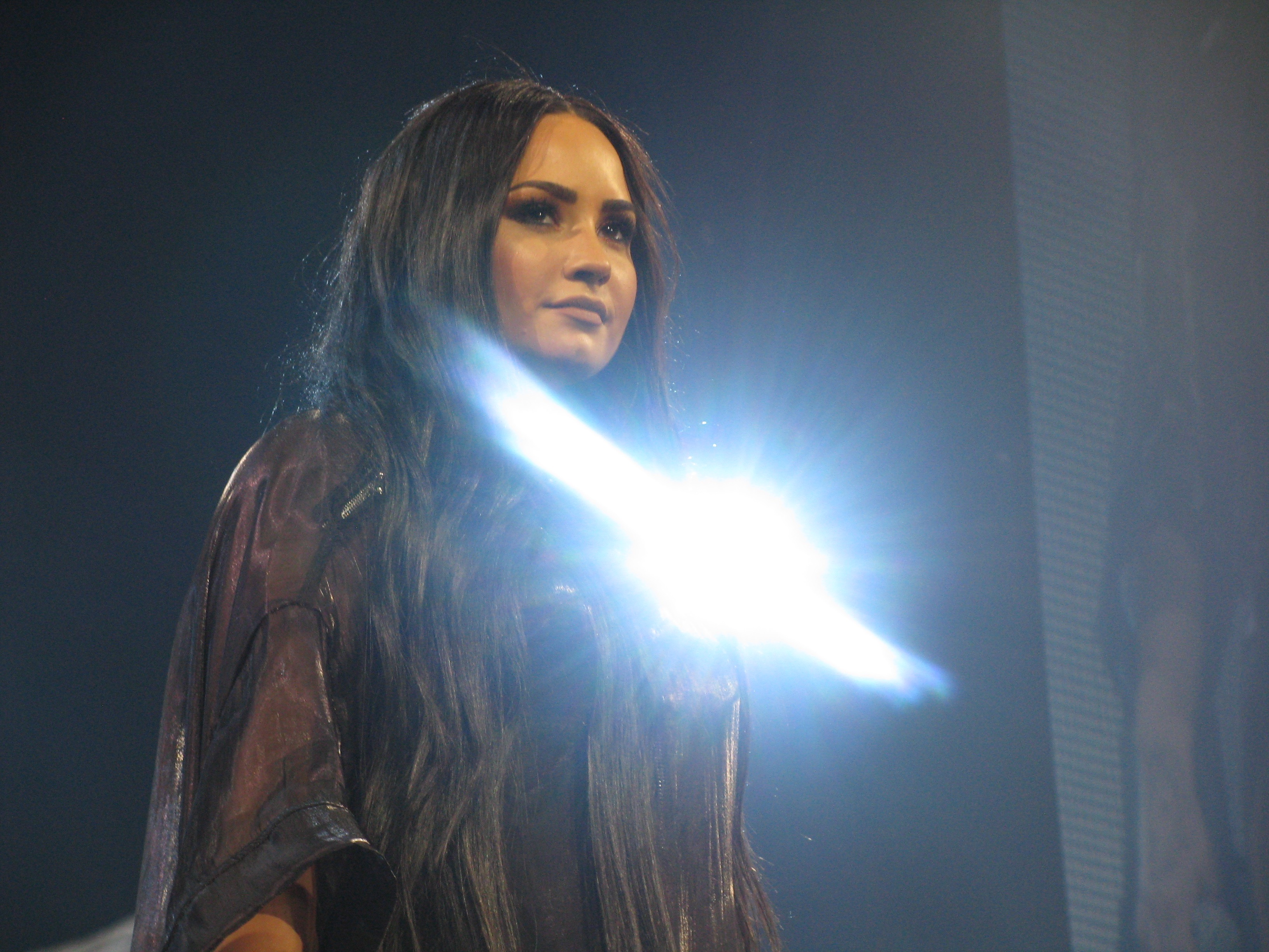 Demi Lovato Tell Me You Love Me World Tour